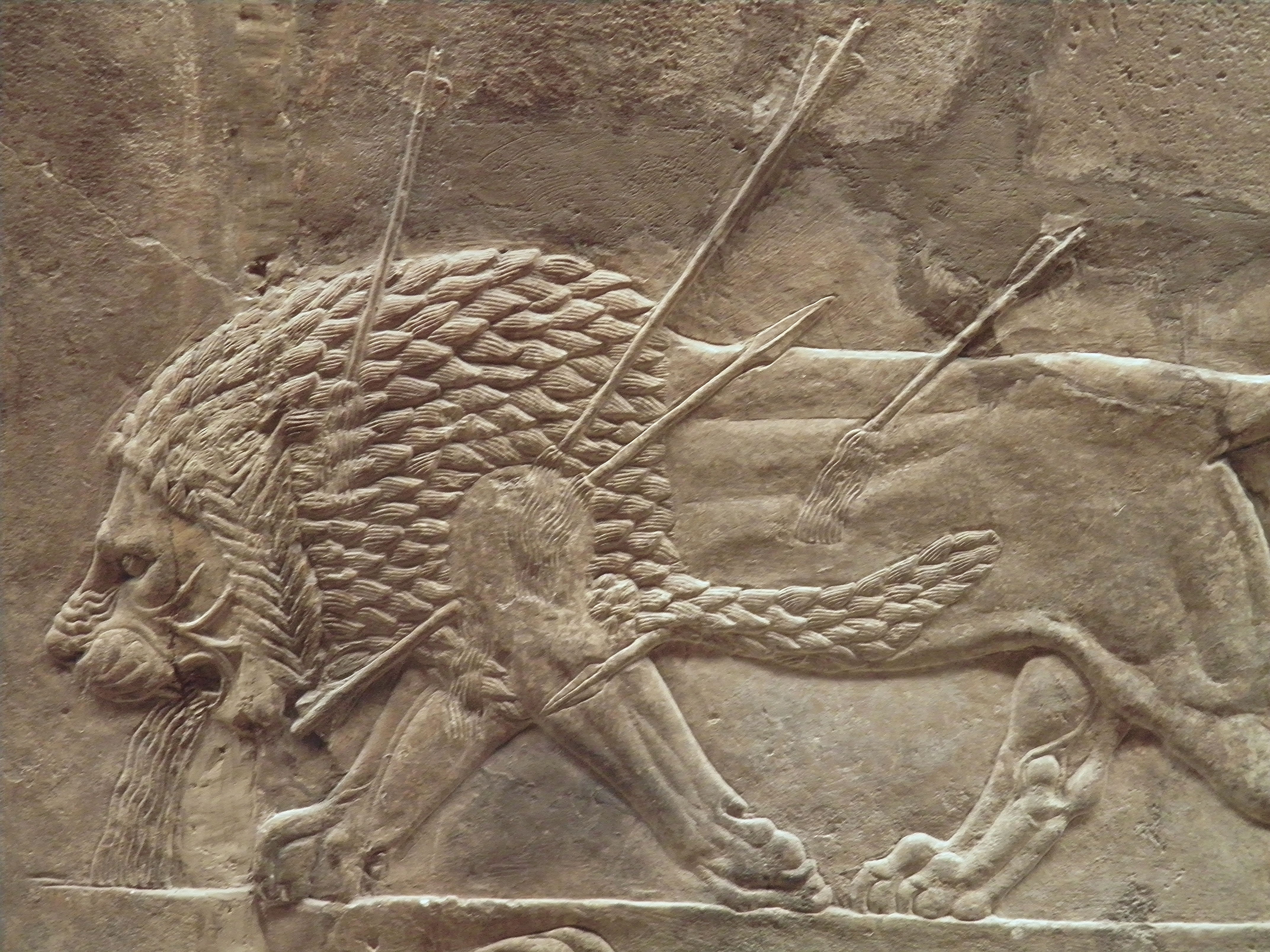 In ancient Assyria, lion-hunting was considered the sport of kings, symbolic of the ruling monarch’s duty to protect and fight for his people. The sculpted reliefs in Room 10a illustrate the sporting exploits of the last great Assyrian king, Ashurbanipal (668-631 BC) and were created for his palace at Nineveh (in modern-day northern Iraq). The hunt scenes, full of tension and realism, rank among the finest achievements of Assyrian Art. They depict the release of the lions, the ensuing chase and subsequent killing.